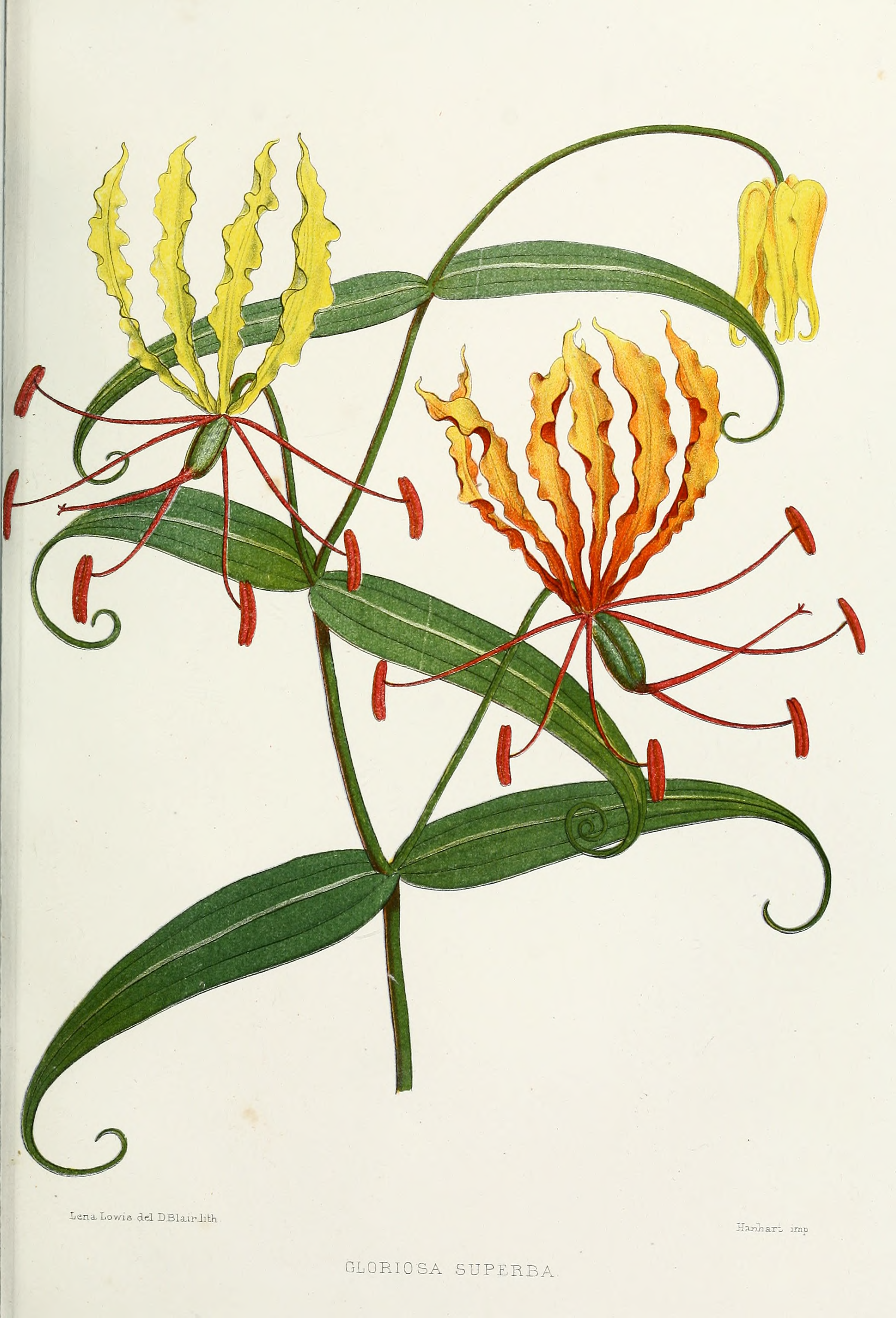 Colour drawing of gloriosa superba from Familiar Indian Flowers (1878) by Lena Lowis.